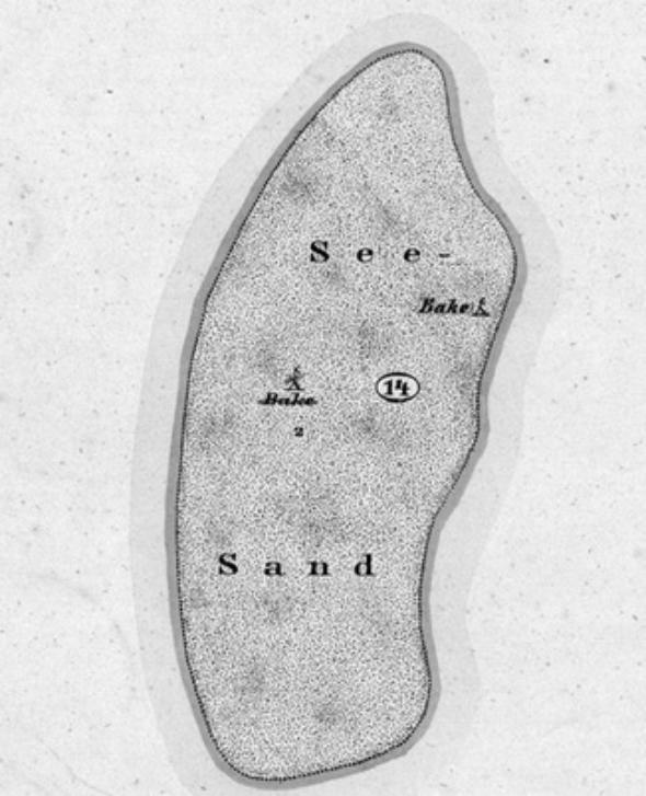 map of Seesand, a former supratidal sand in the west of the North Frisian Islands that disappeared in 1908